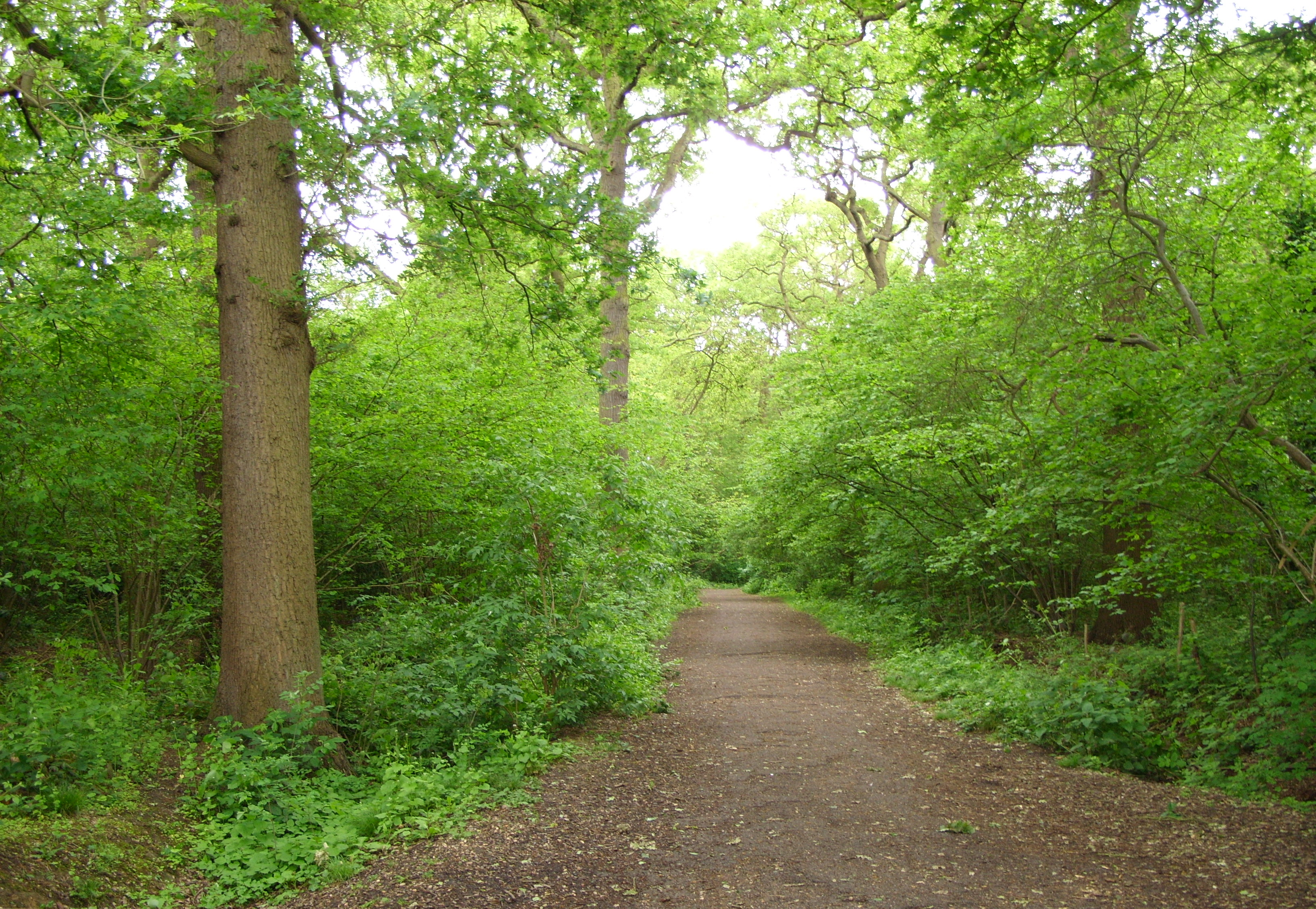 Big Wood, London N2